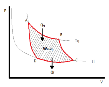 Ciclo de Carnot